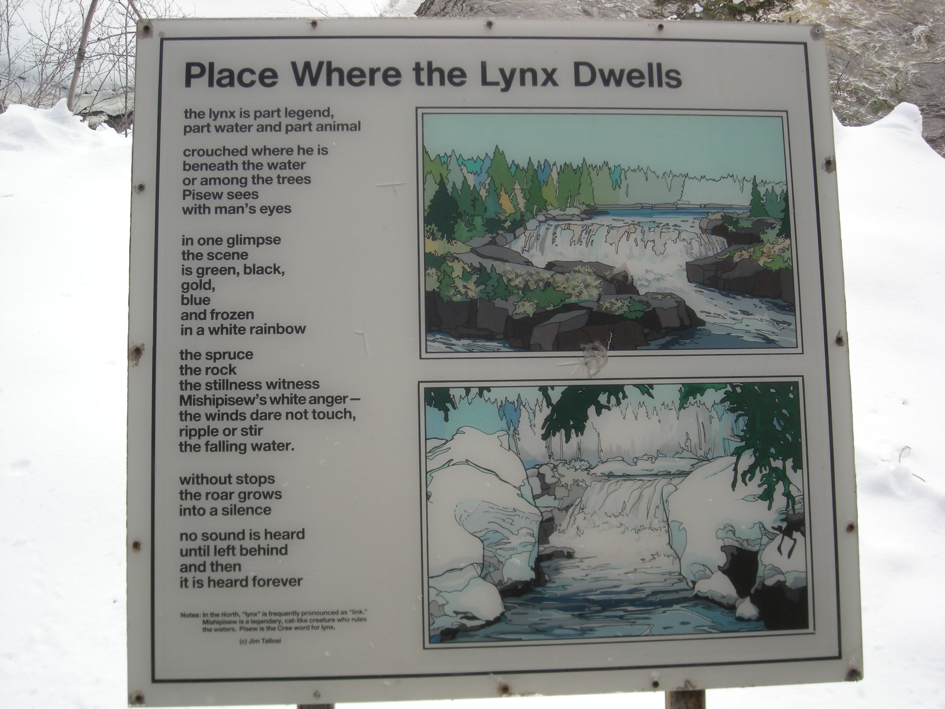 Lynx Dwells story at Pisew Falls Provincial Park